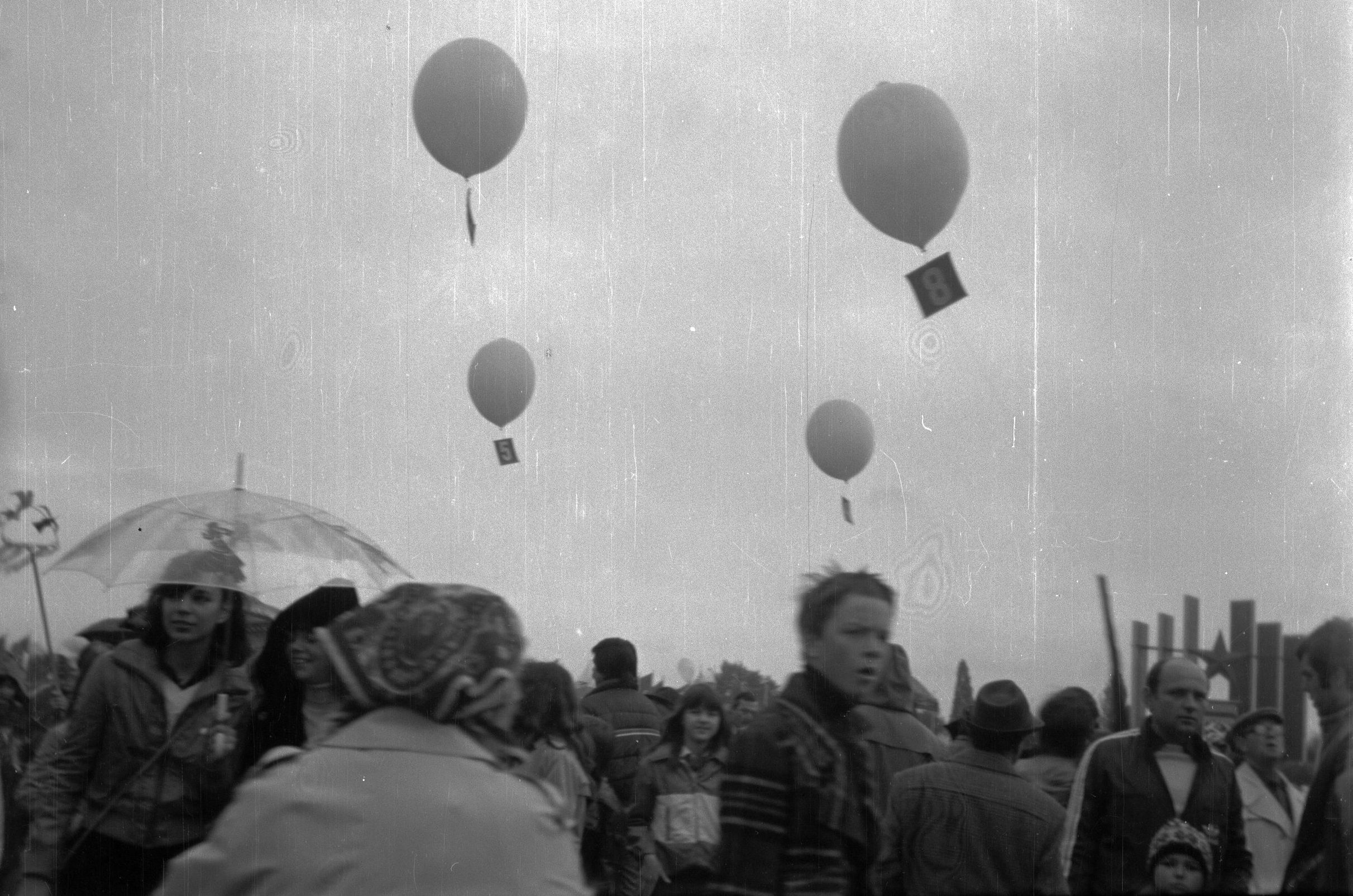 Prague-Holešovice. May Day on the Letná Plain.